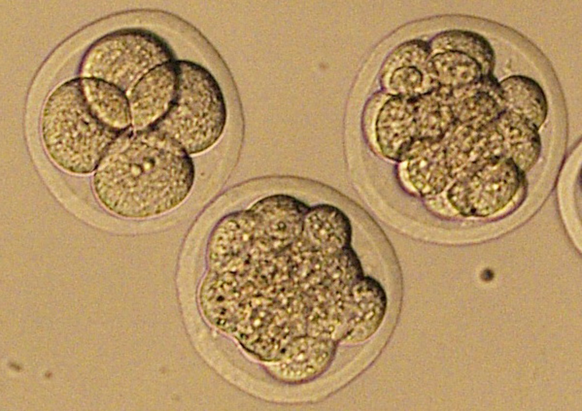 4-, 8- and 16-cell stage mouse embryos